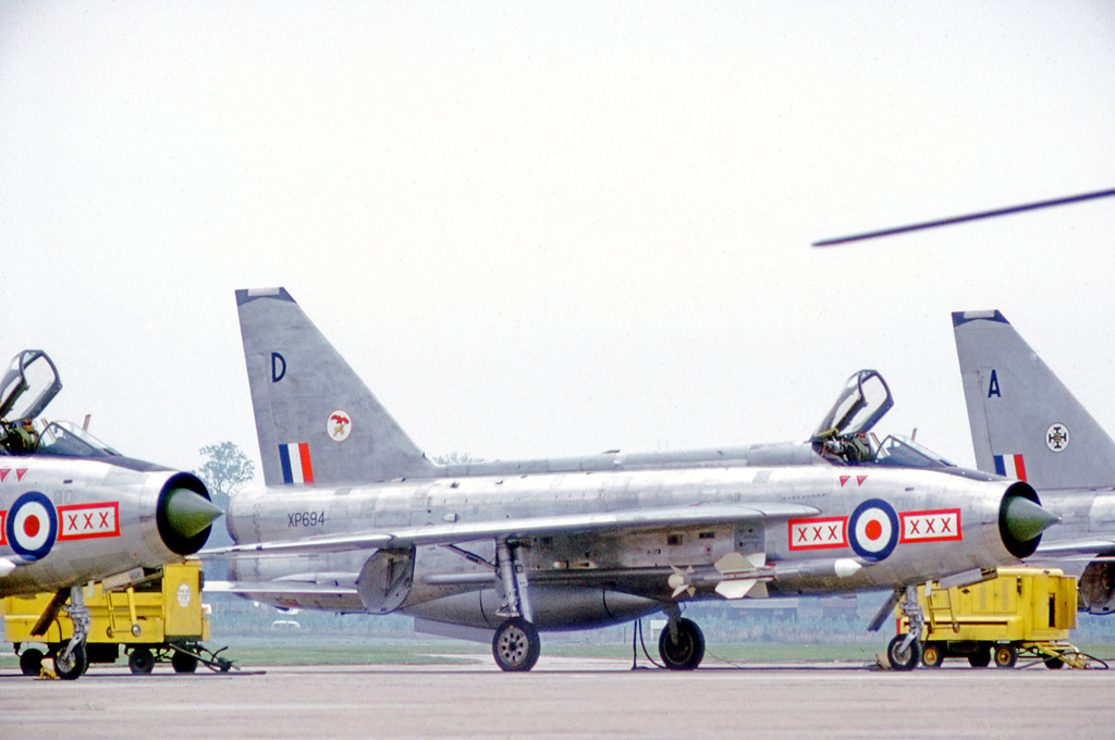 English Electric Lightning F.3 XP694 coded 'D' of 29 Squadron RAF at RAF Wattisham in 1972.